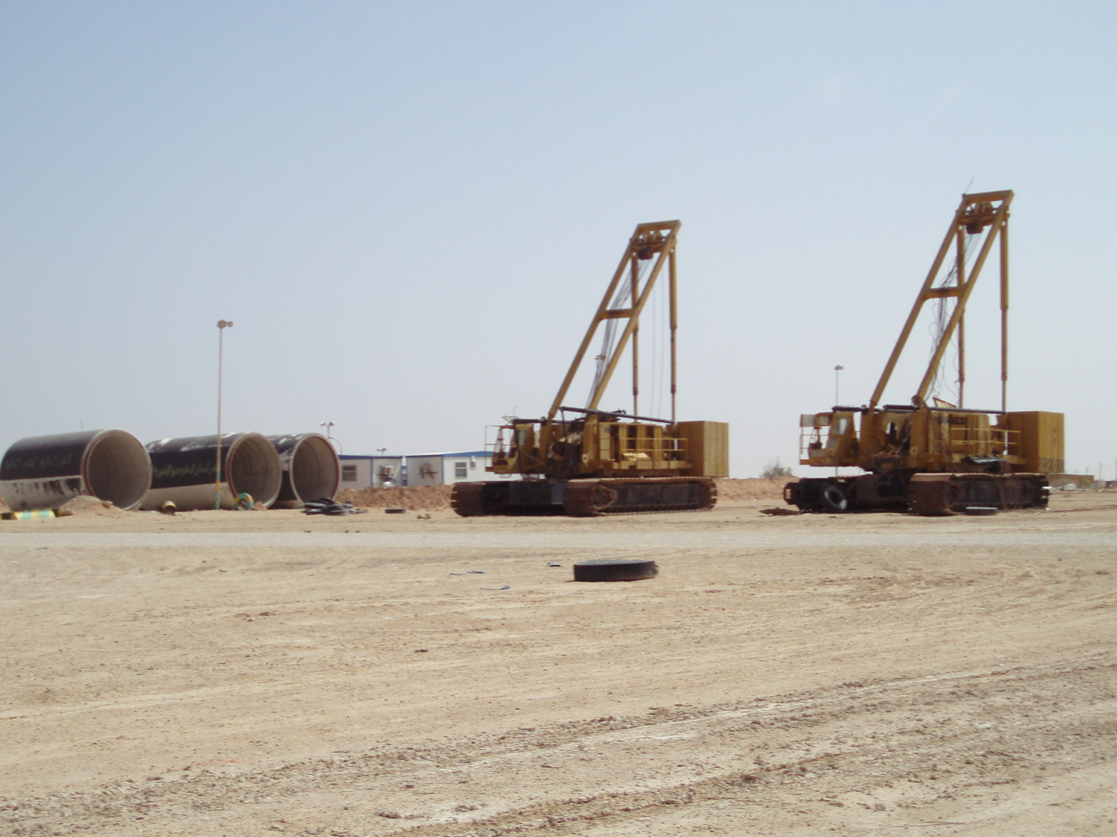 Tube sections of the Great Man-Made River and crawler cranes in the Libyan desert.